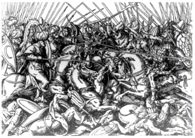 Battle of Varna.